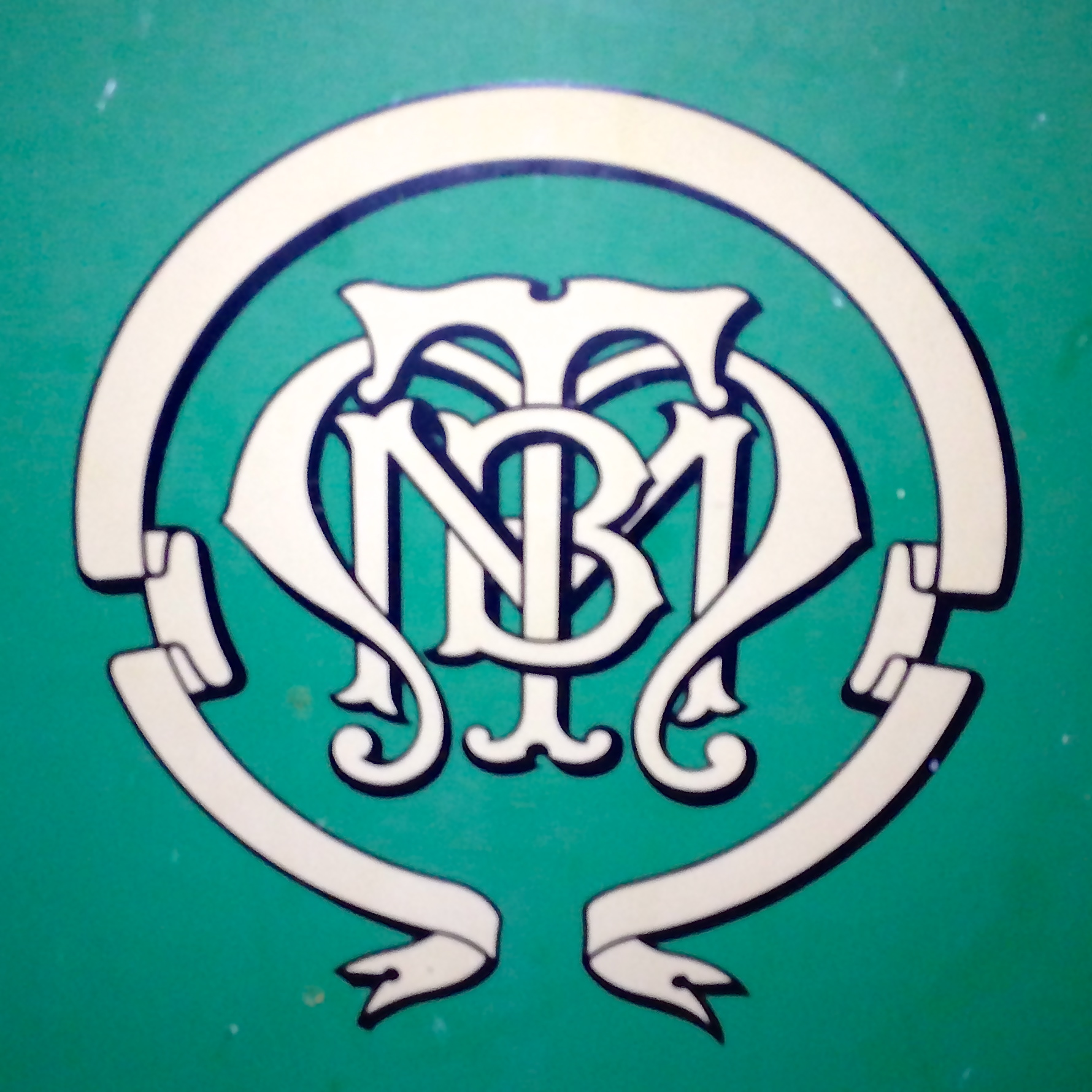 The logo of the Melbourne & Metropolitan Tramways Board, as taken from the side of a W-class tram currently located near San Francisco.